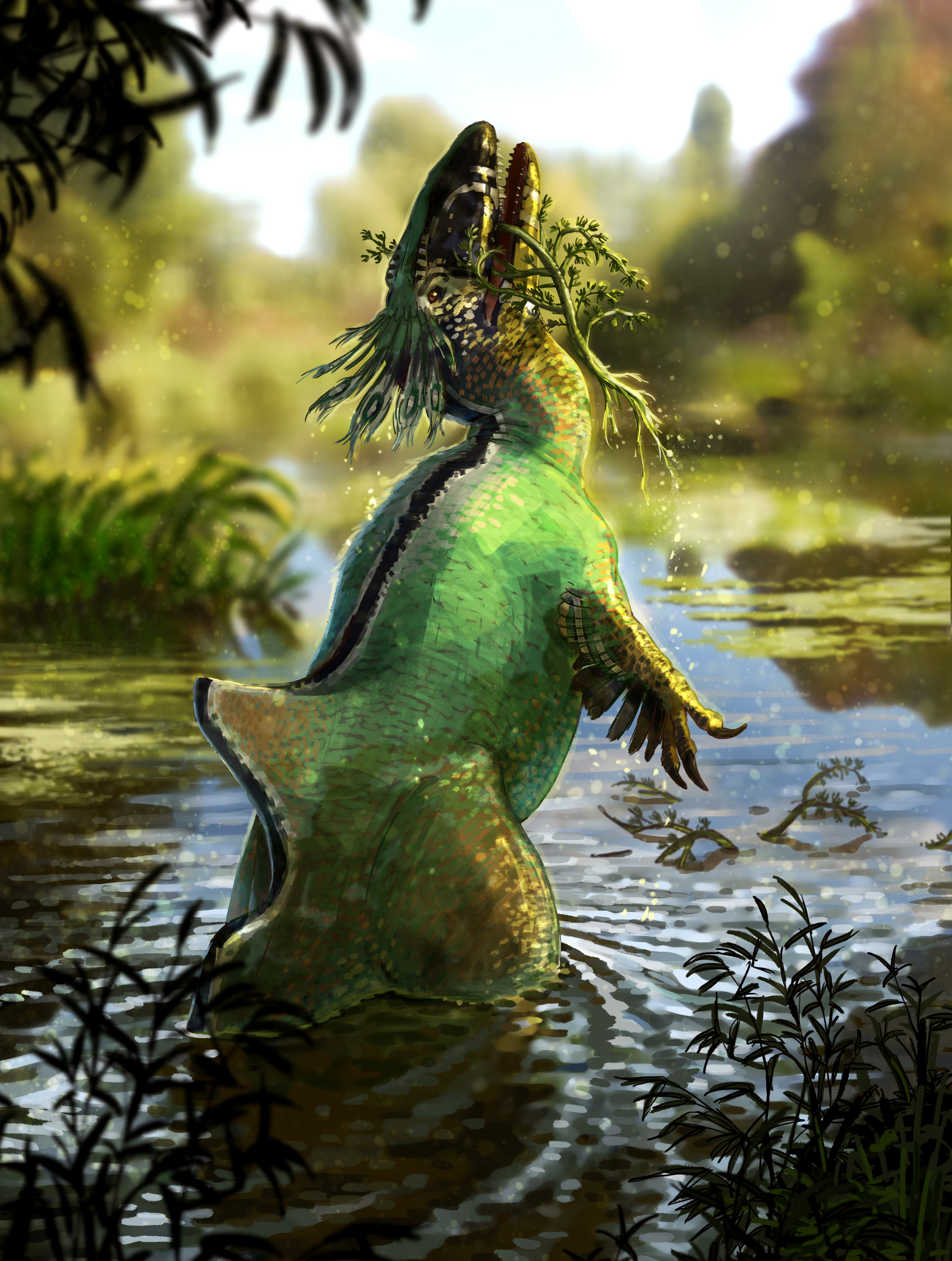 Concavenator in a pond